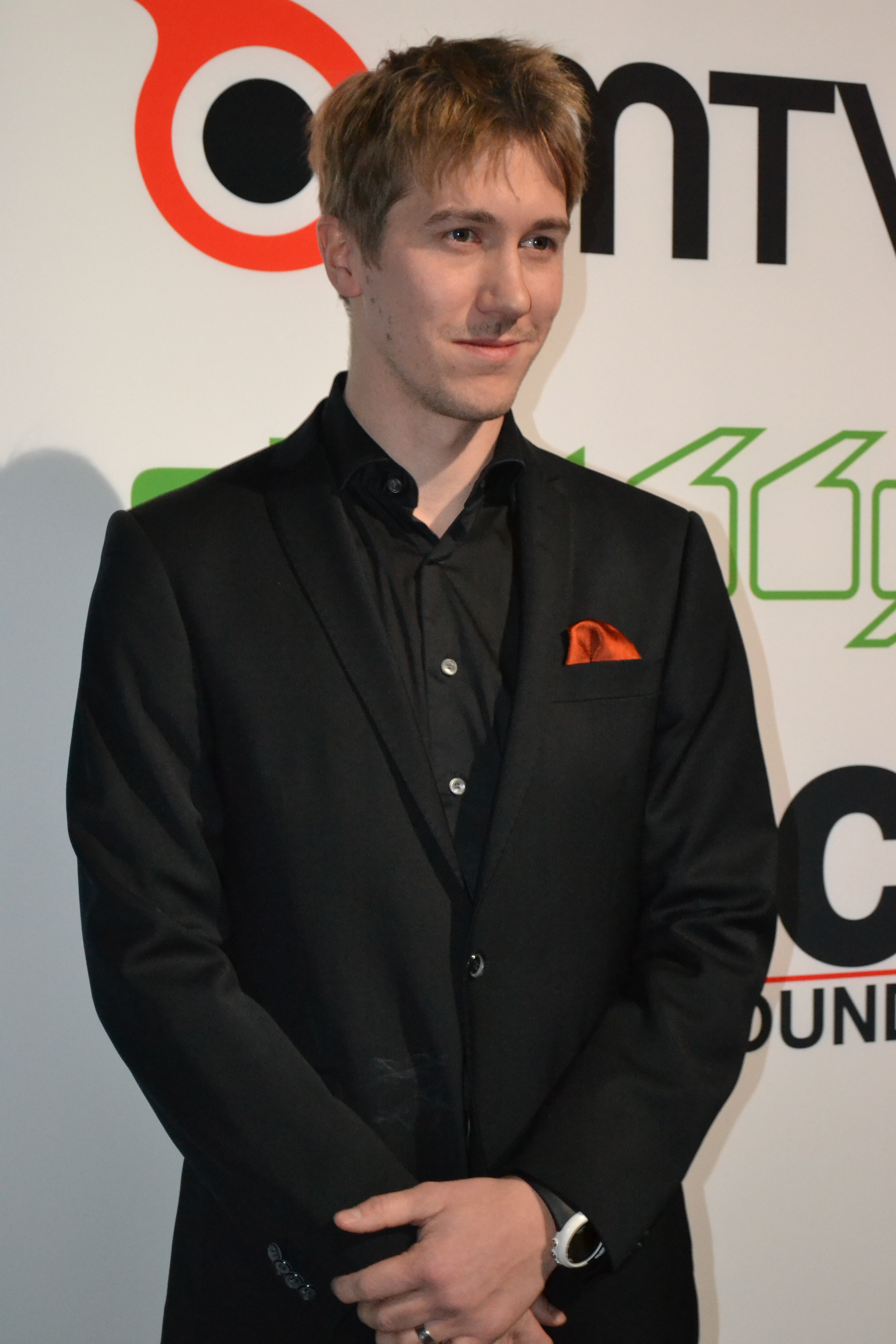 Jussi Vatanen in 2013 Jussi Awards.